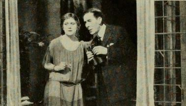 Still from the American drama film The Man Who Played God (1922) with George Arliss and Ann Forrest, page 65 of the December 1922 Photoplay.